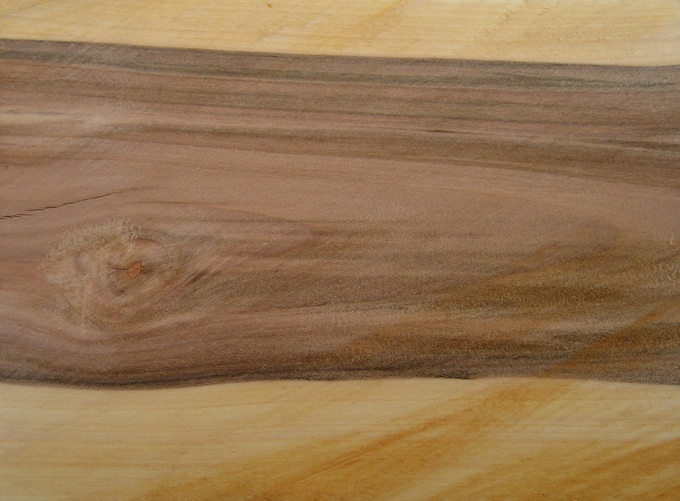 Wood of Sorbus aucuparia, freshly cut with japanese saw. Size appr. 10.5 x 8 cm.